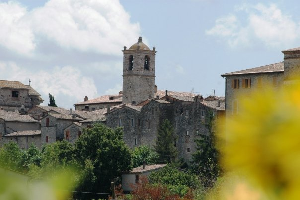 FRATTA TODINA